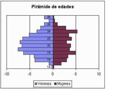 statistics